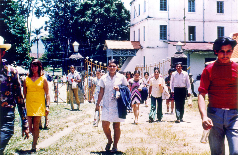 Workers leaving the San Jose de Suaita cotton mill (c. 1970s) — in San José de Suaita, Colombia. Present day San Jose de Suaita Cotton Mill Museum.